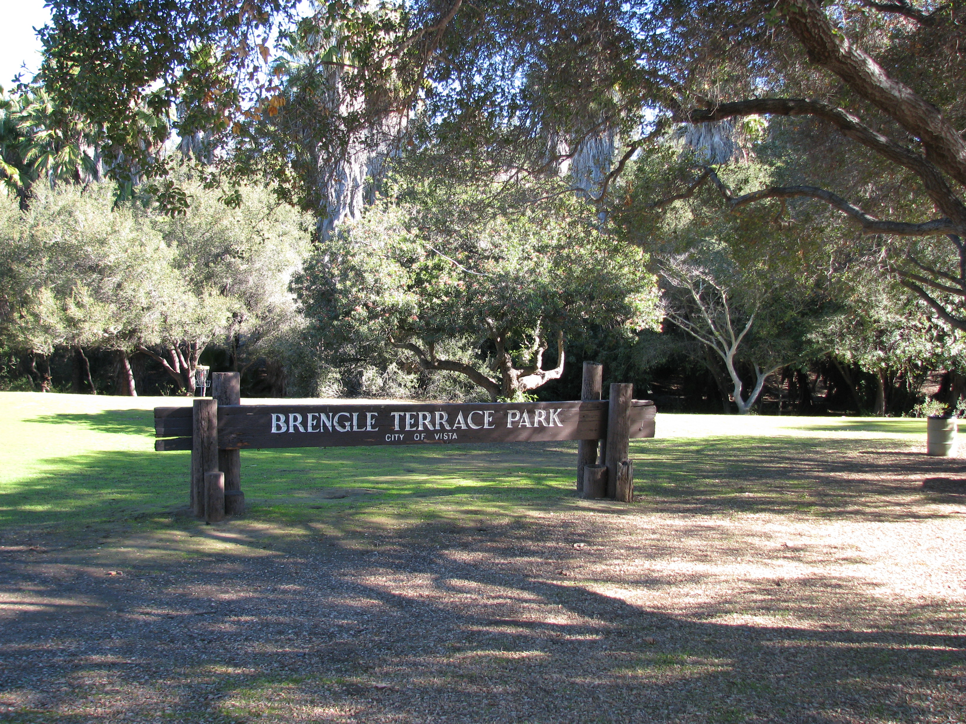 Brengle Terrace Park original monument sign shrouded within heavy vegetation.